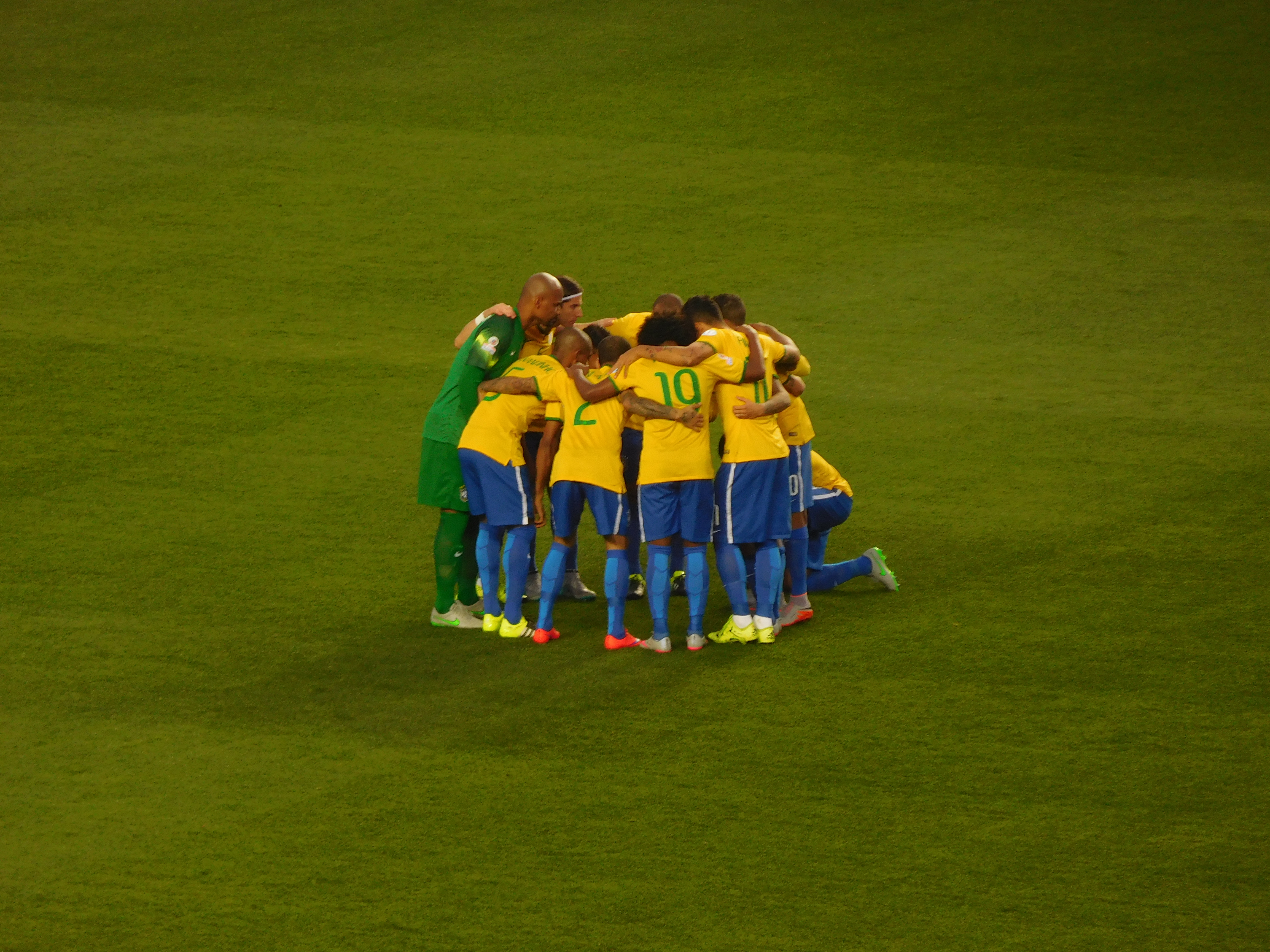 Brazil vs Paraguay (CA 2015)